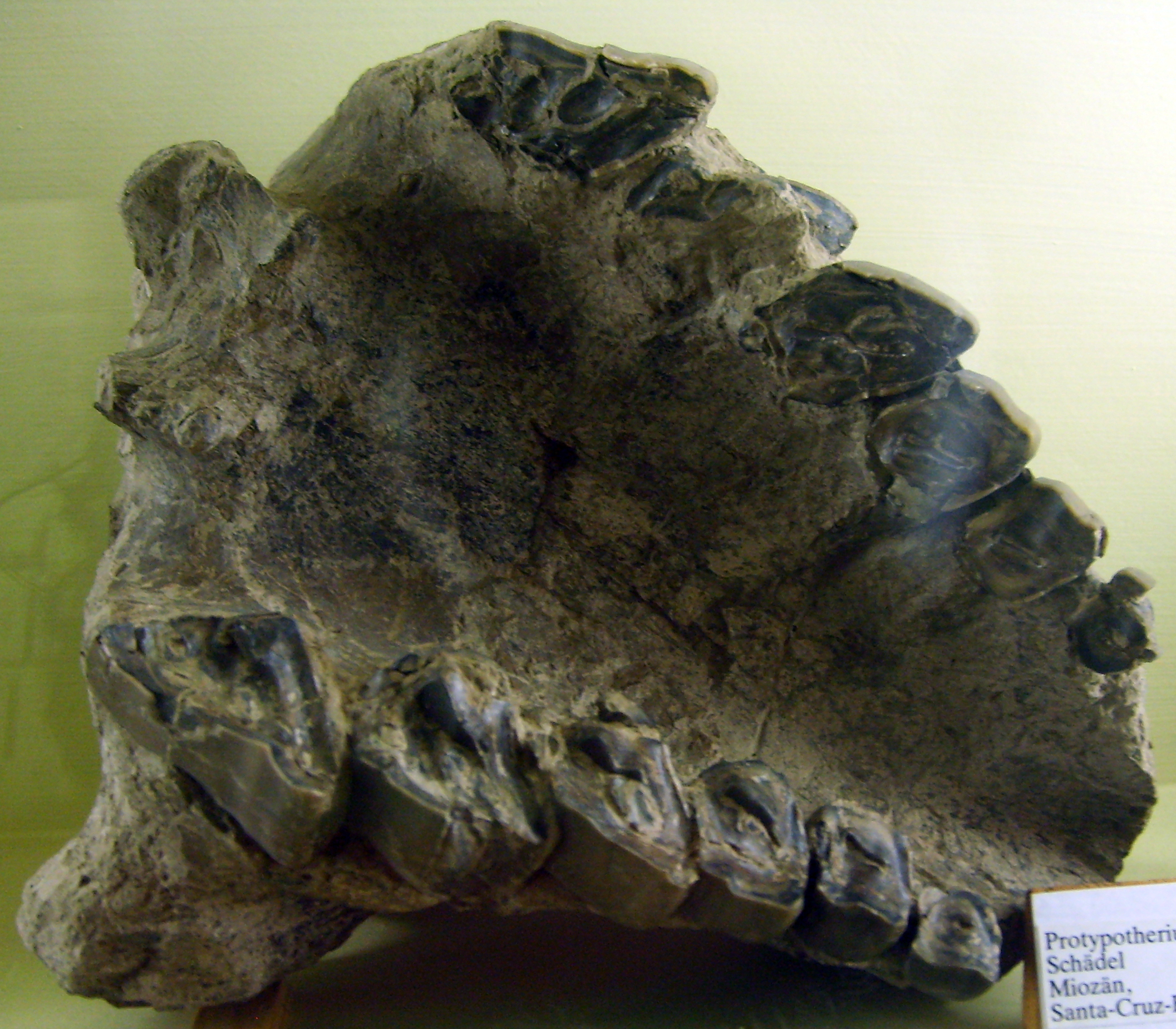 Skull labeled as Protypotherium leptocephalum, but in reality a Scelidotherium leptocephalum, at the Museum für Naturkunde, Berlin.